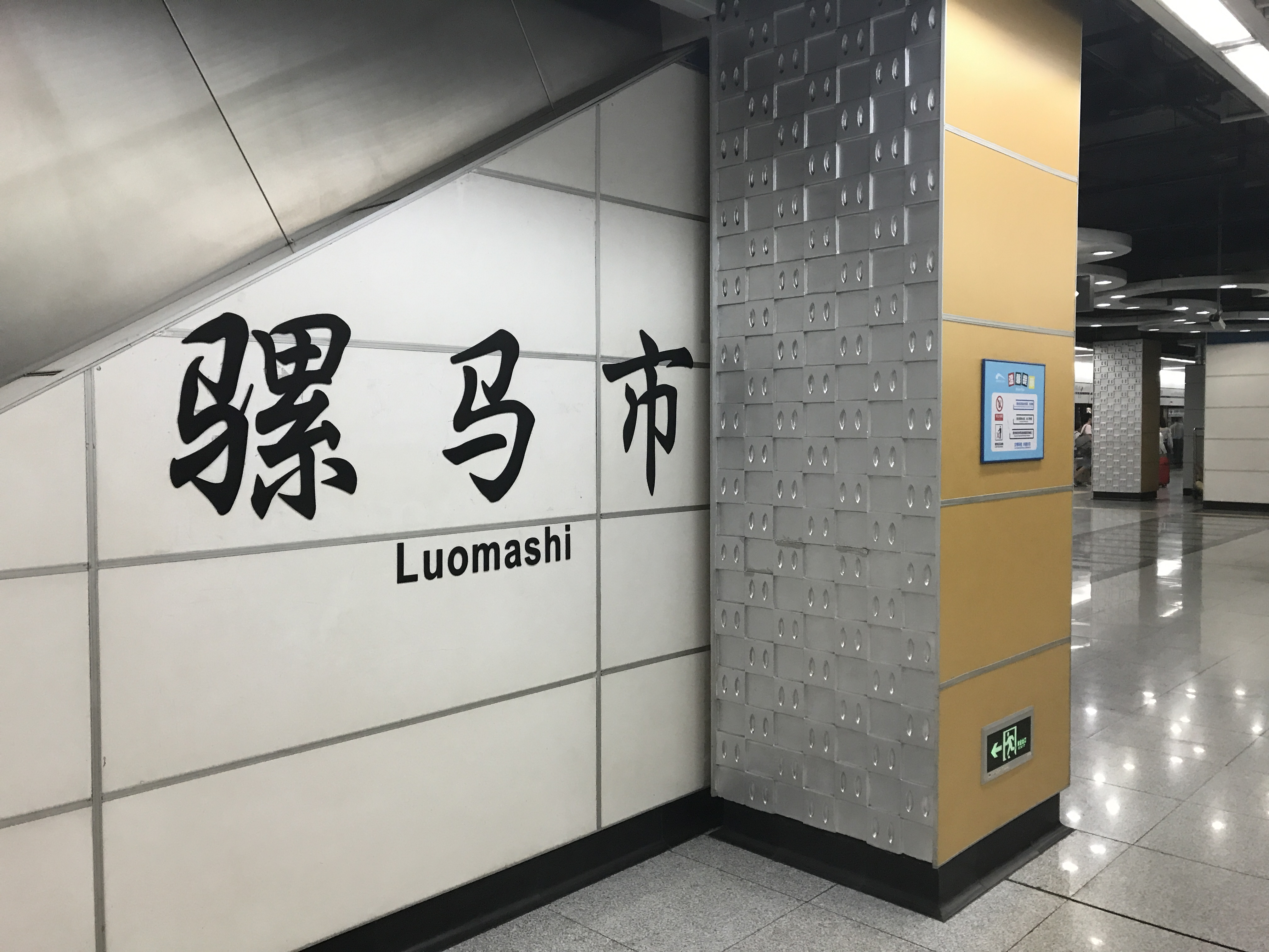 Platform of Luomashi Station, Chengdu Metro